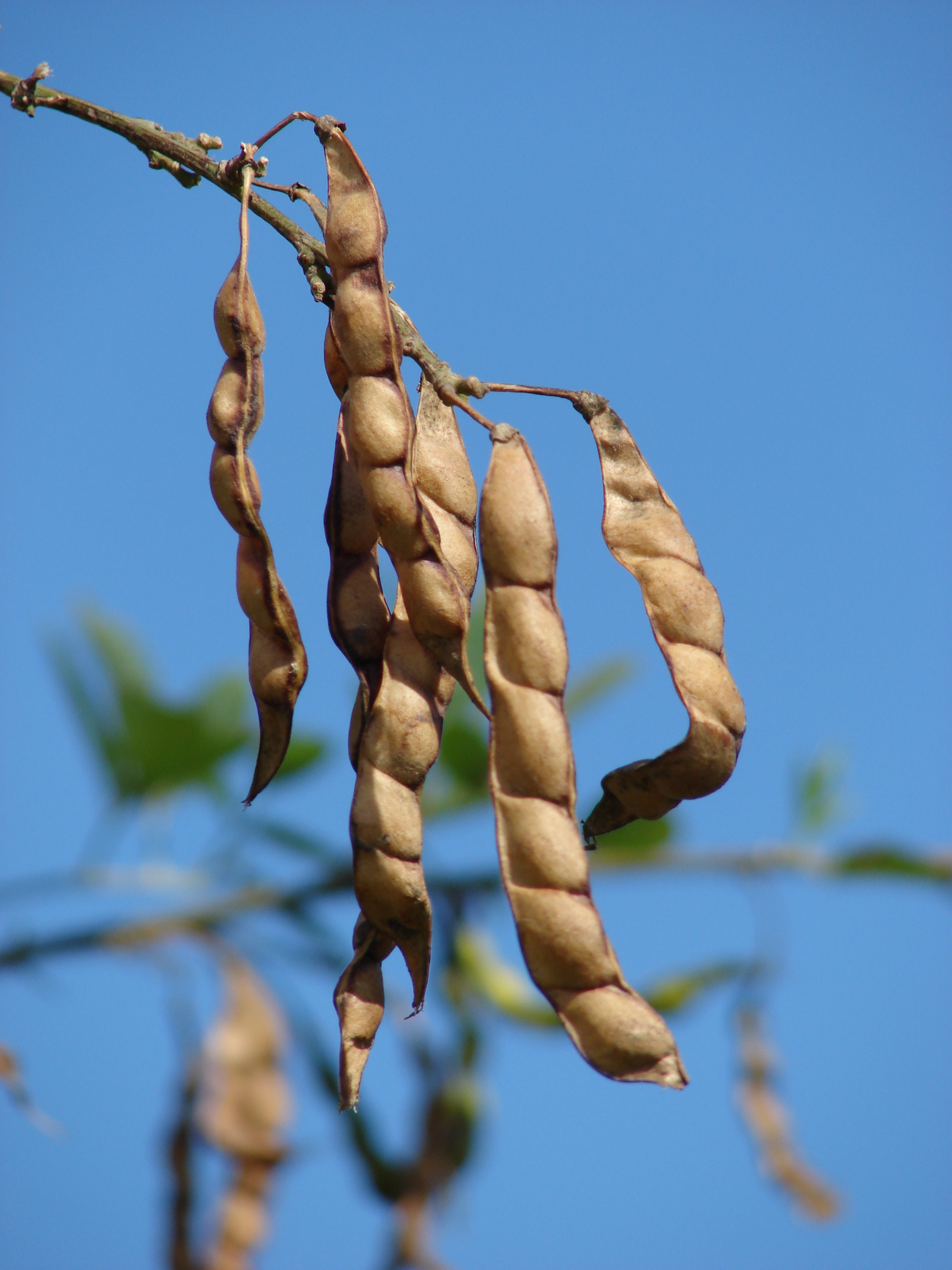 Cajanus cajan (seedpods). Location: Maui, Old macadamia nut orchards Waiehu